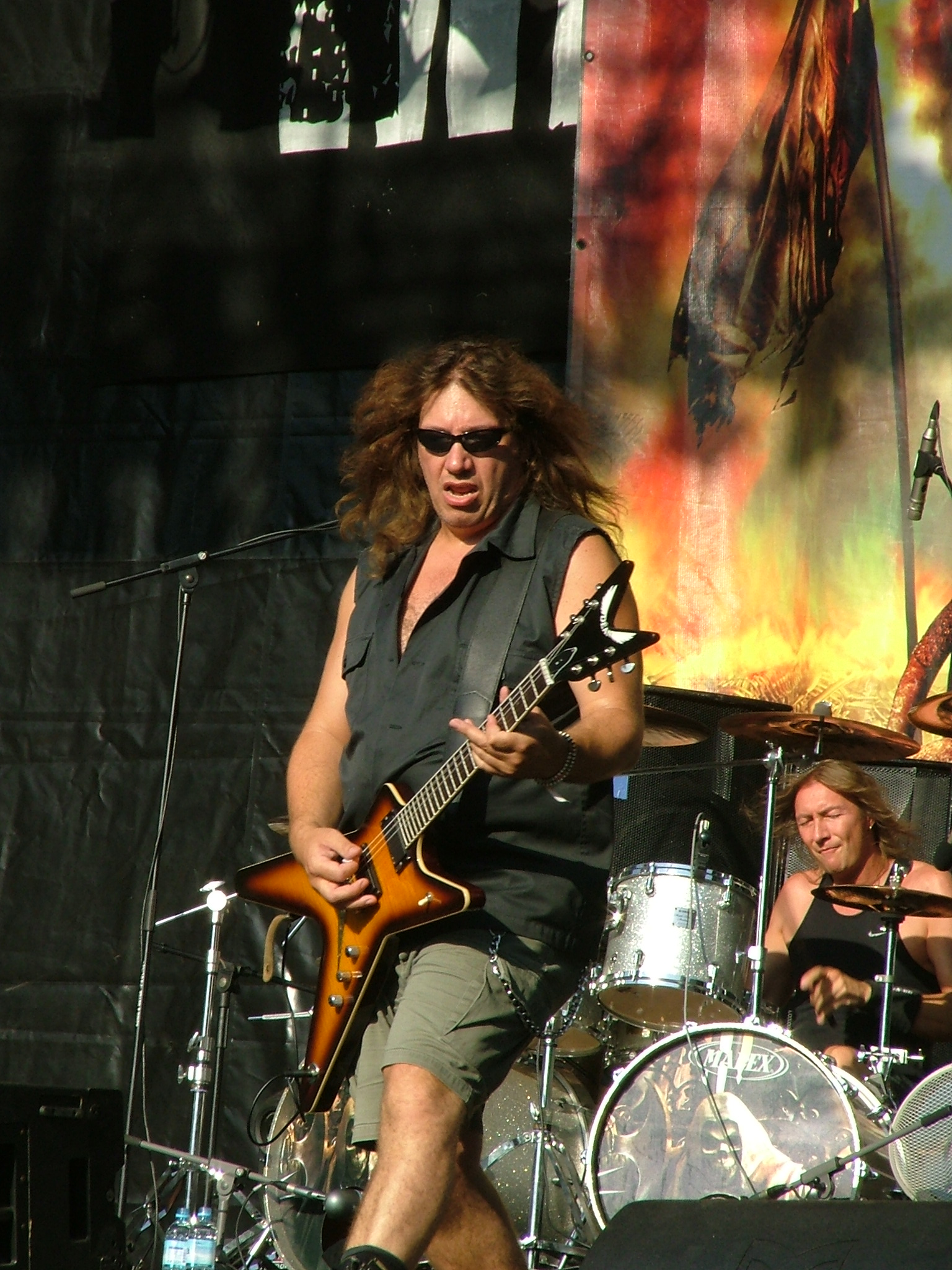 German true metal band Grave Digger at the Metalcamp in Tolmin